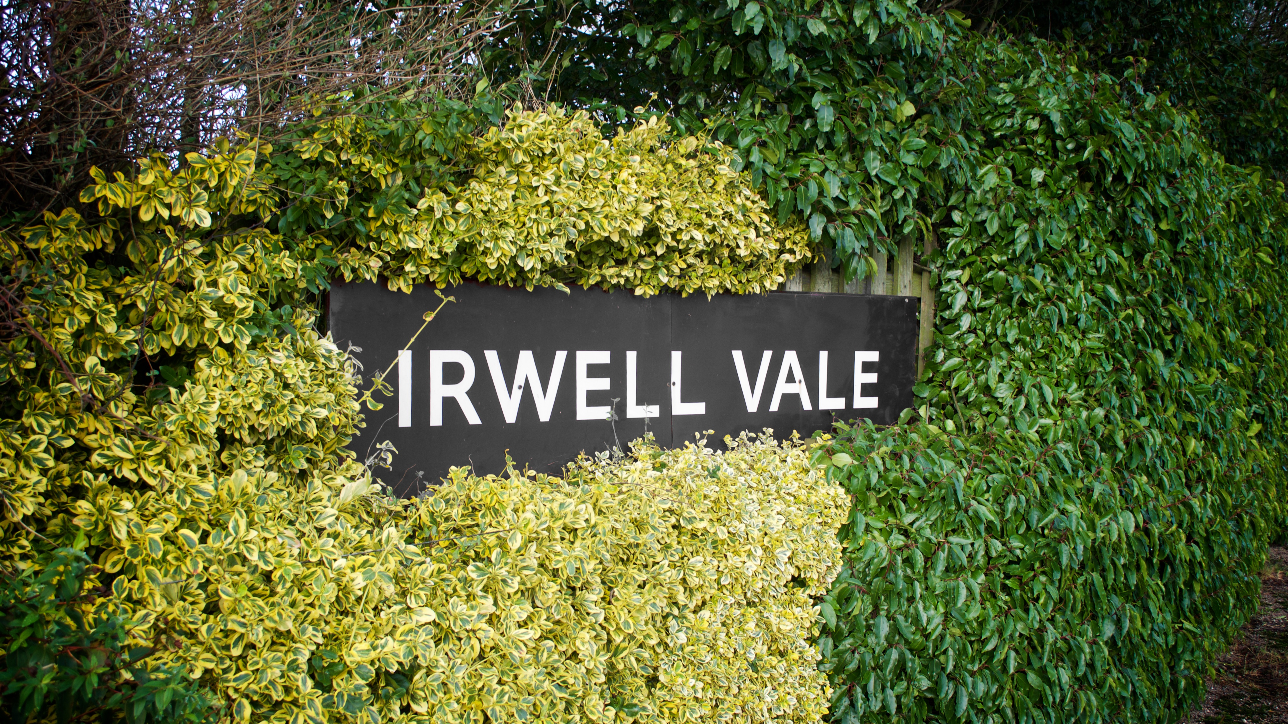 Irwell Vall Railway Station Signage